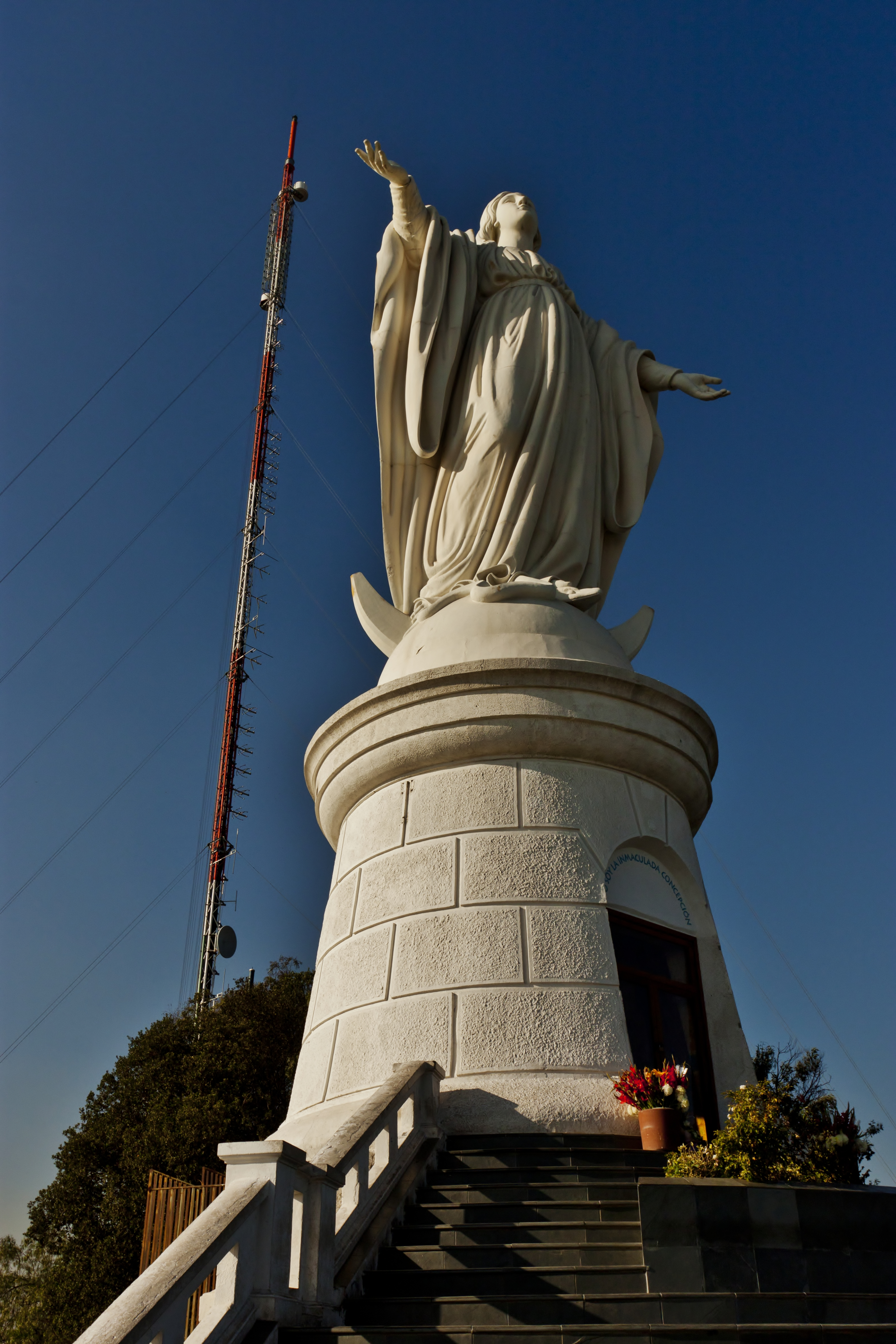 Statue of the Virgin Mary on the top of Cerro San Cristóbal. Taken at Latitude/Longitude:-33.426437/-70.631117. 0.84 km North-East Barrio Bellavista Región Metropolitana Chile (Map link)